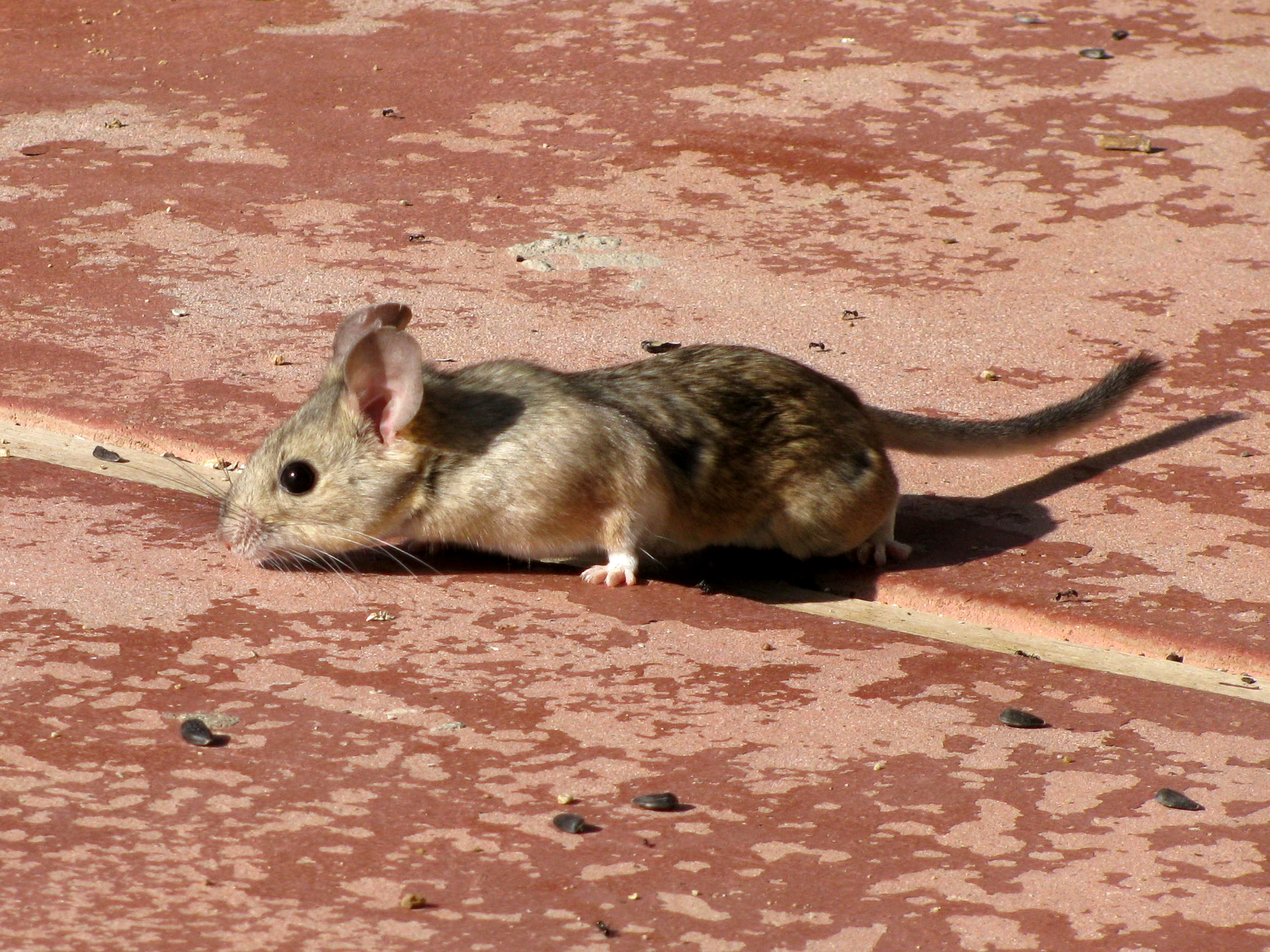 Desert Packrat (Neotoma lepida) eating sunflower seeds in Joshua Tree, California, USA, April 2015. Photo by Jules Jardinier